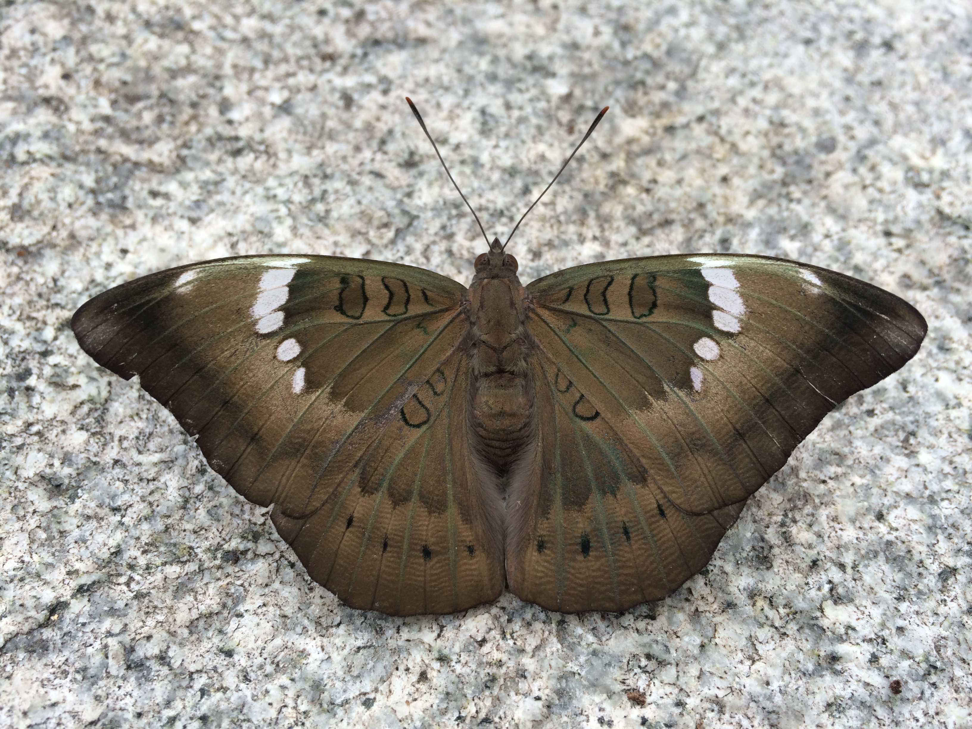 Common Baron, Bangalore, Karnataka, India